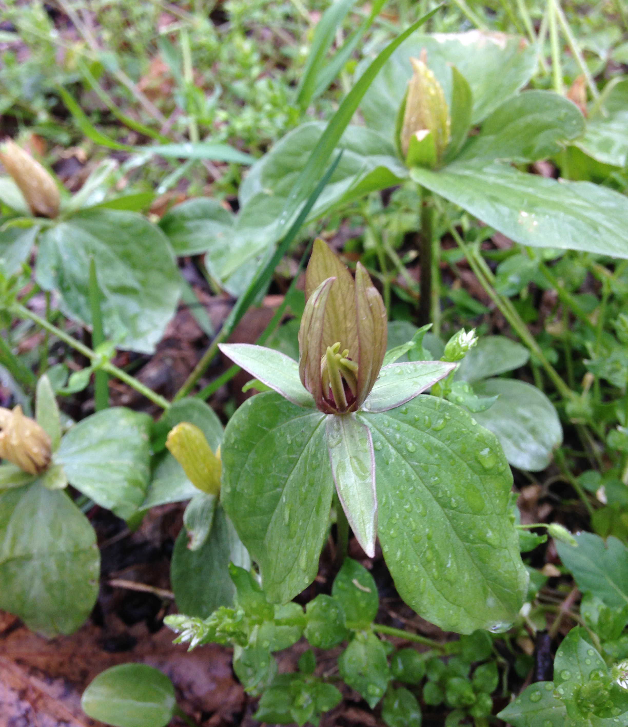 Trillium sessile, lower limestone slopes and mesic bottoms of Cumberland River bluffs on the Ashland City Greenway Trail, Cheatham County, Tennessee. An herbarium specimen collected from this population is available at the Austin Peay State University Herbarium (APSC) for verification.